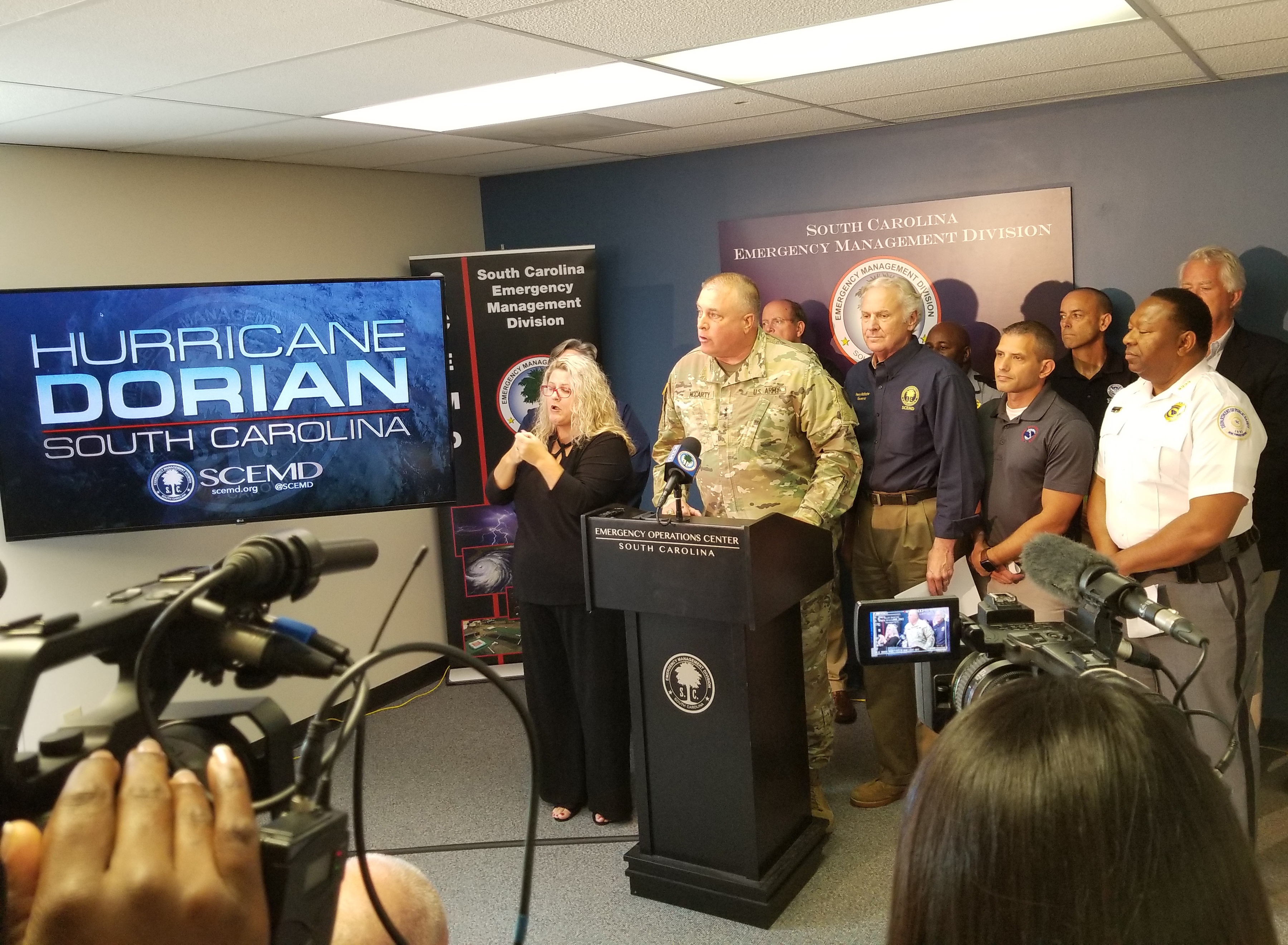 U.S. Army Maj. Gen. Van McCarty, the adjutant general for South Carolina, provided an update on the South Carolina National Guard in response to Hurricane Dorian during a press conference with South Carolina Gov. Henry McMaster, Sept. 1, 2019. Approximately 1,000 South Carolina National Guard Soldiers and Airmen have reported to their units throughout the state to provide support to state partners. The South Carolina National Guard is ready to support the counties and first responders with whatever resources they need for as long as needed before, during, and after the impact of Hurricane Dorian to South Carolina. (U.S. Army National Guard photo by Capt. Jessica Donnelly)